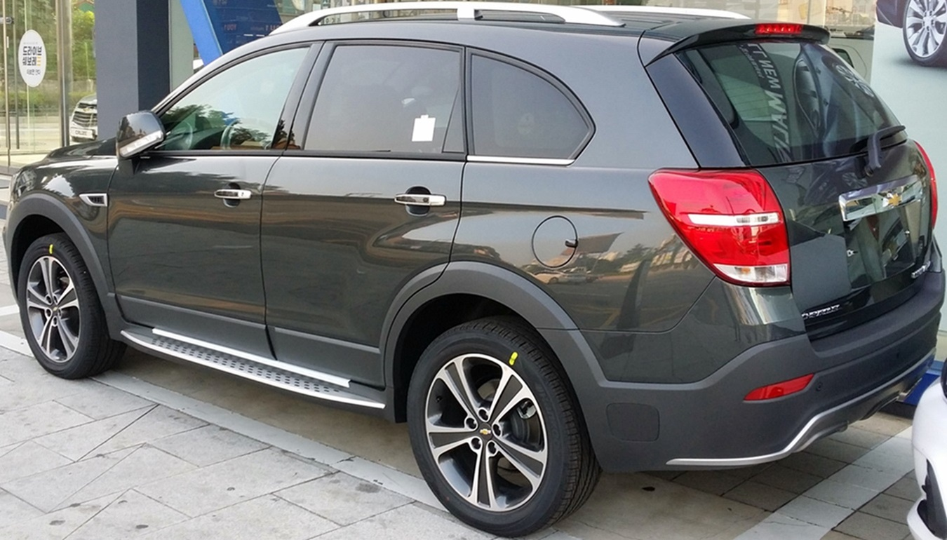 Chevrolet Captiva